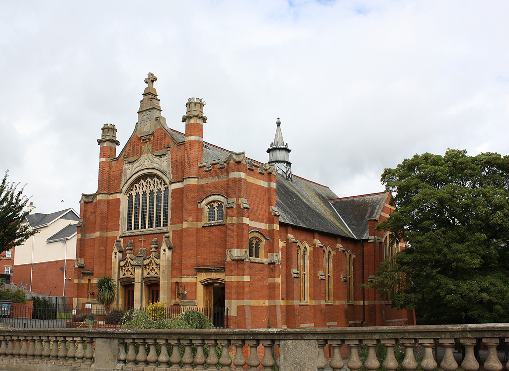 Methodist Church, Bridge Street, Evesham, Worcestershire, seen from the south